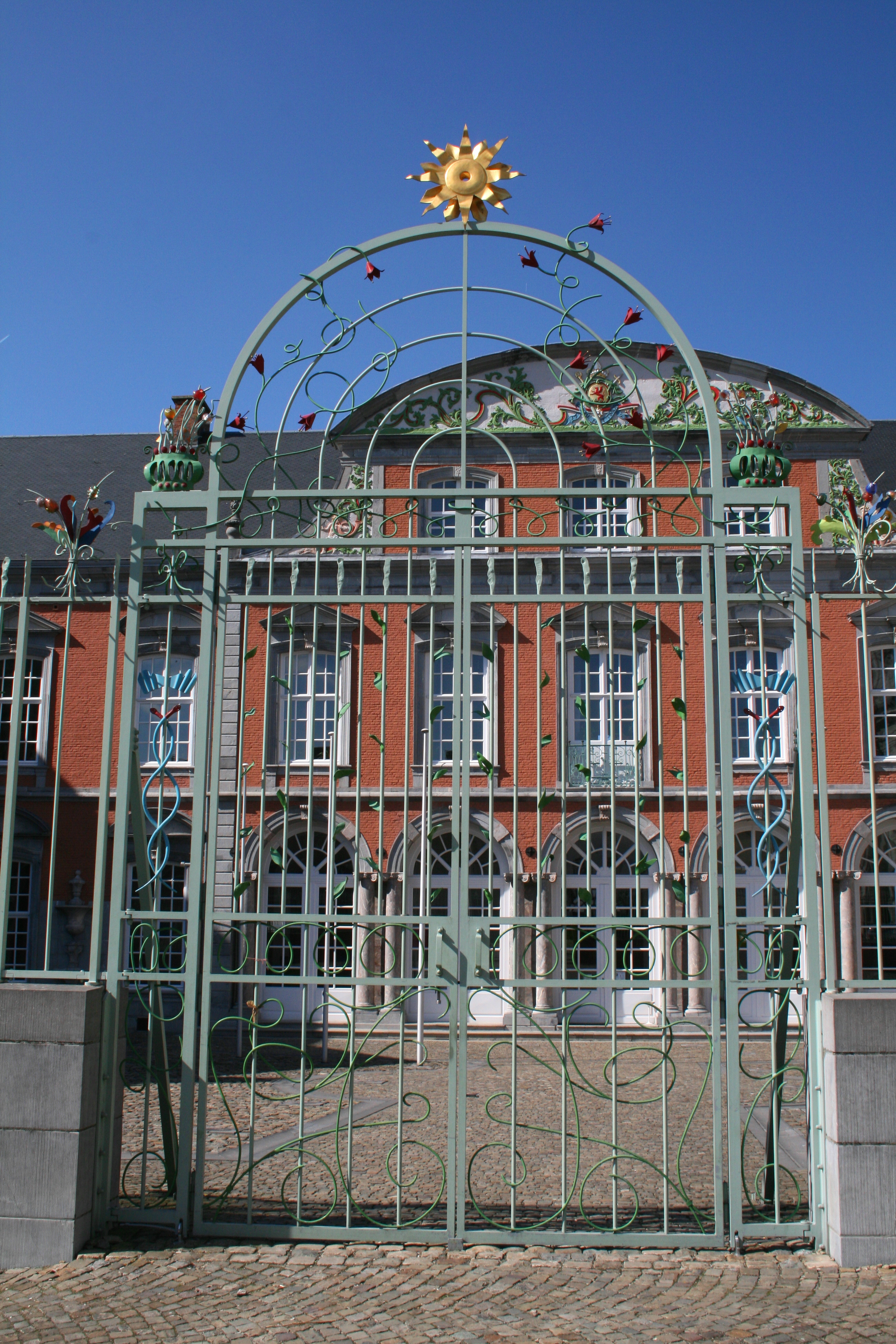 Polychrome cast iron grille and avant-corps middle of the previous Abbey palace (1729-1731) of Saint-Hubert (Belgium).